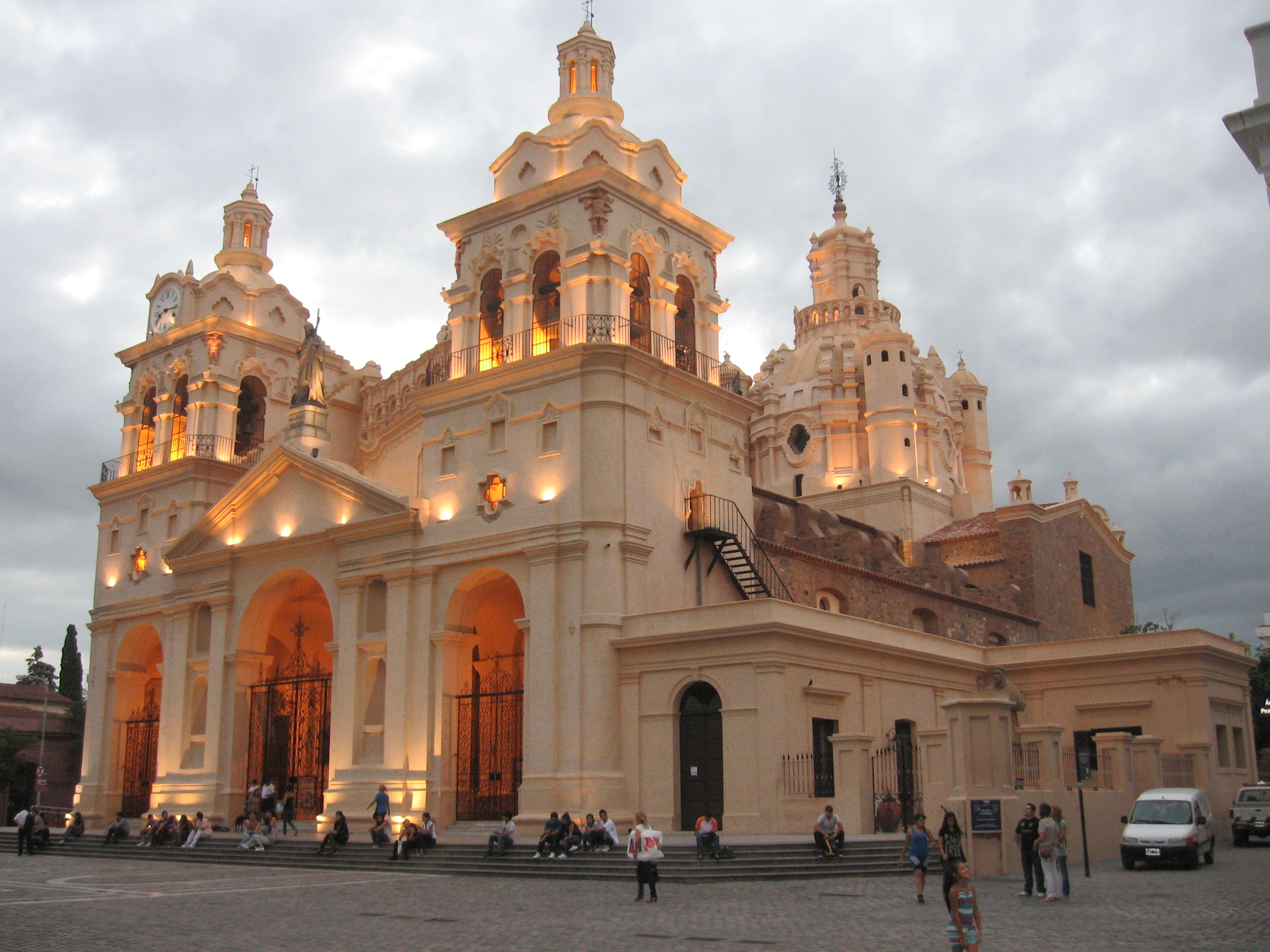 Foto de la Catedral de Córdoba, tomada a la tarde